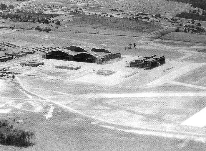 Aerial view of Robins Air Depot aircraft hangars, 1943/1944